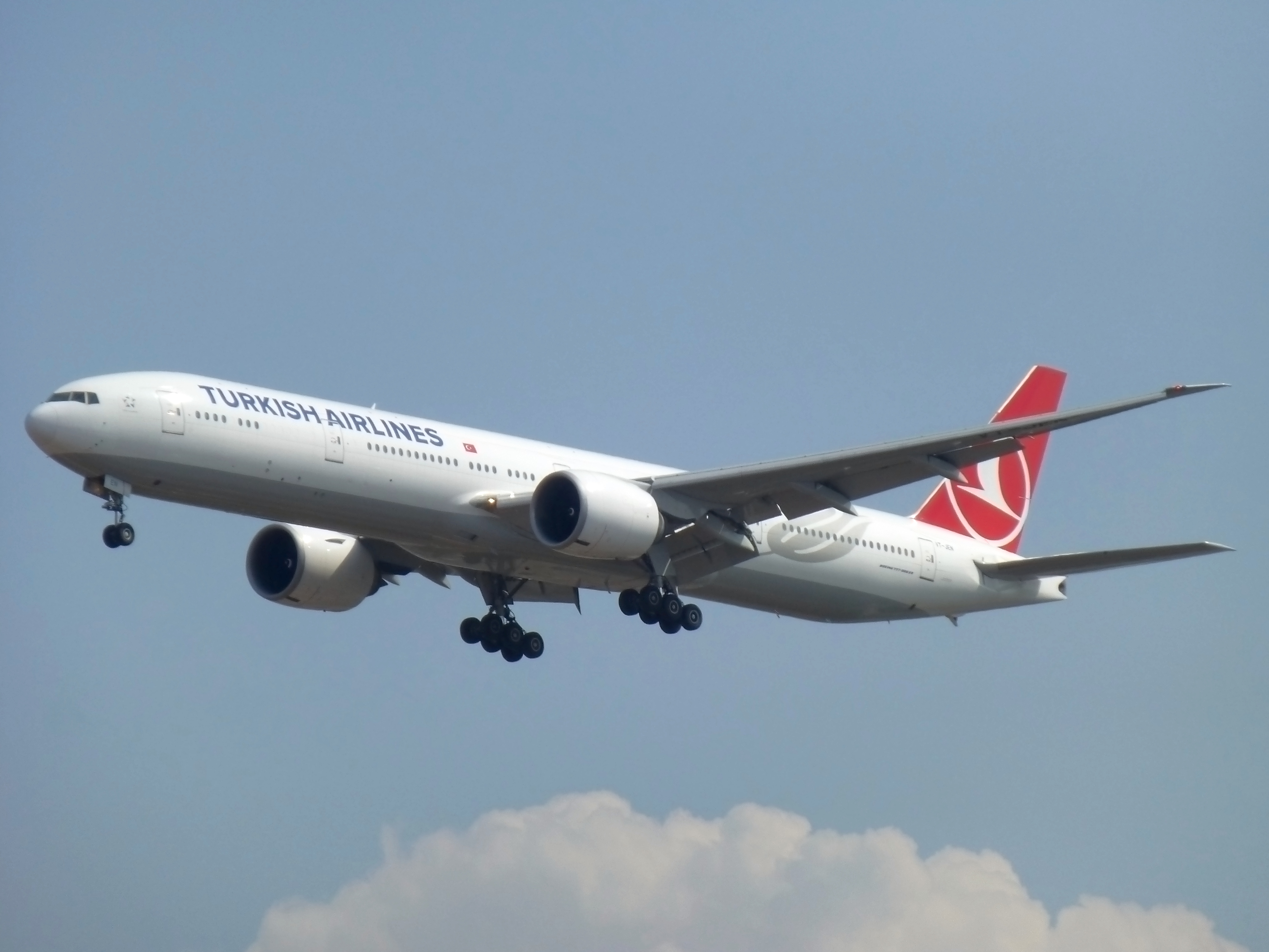 Aircraft of Turkey at Ataturk airportl